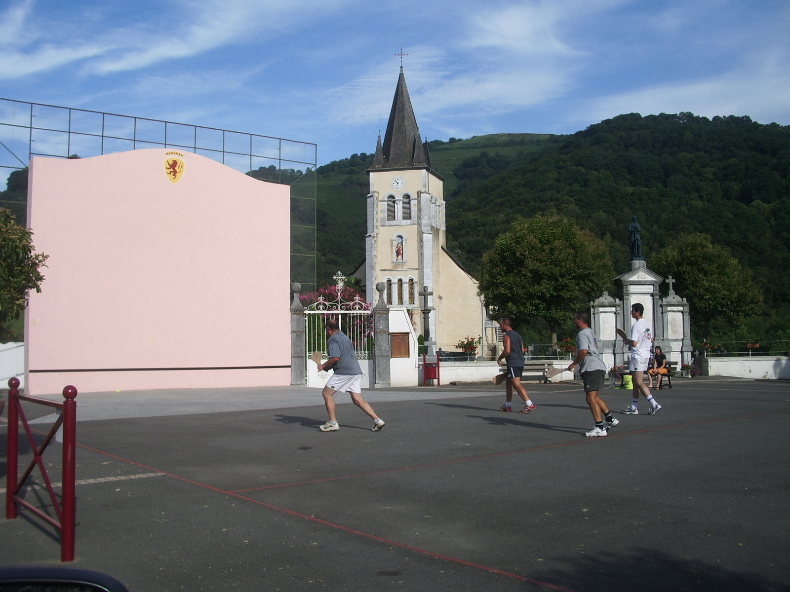 Church and Pelota Court in Barkoxe, Soule